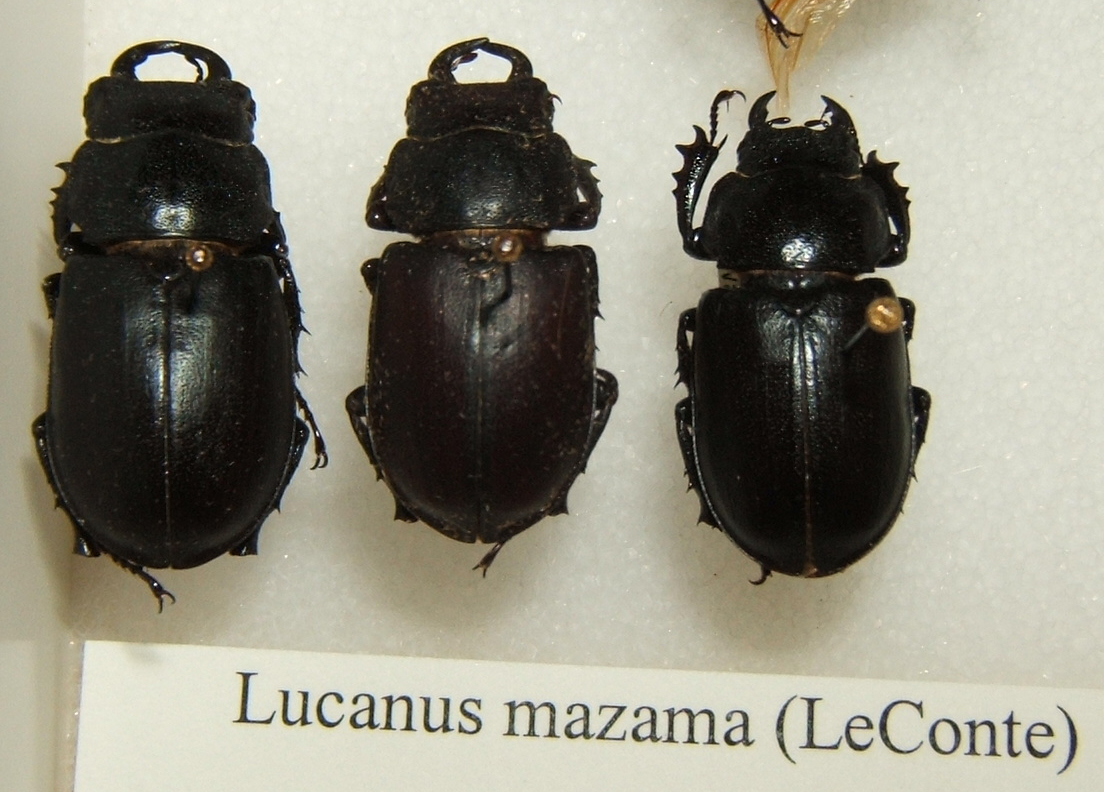 Lucanus mazama adult taken by Shawn Hanrahan at the Texas A&M University Insect Collection in College Station, Texas.